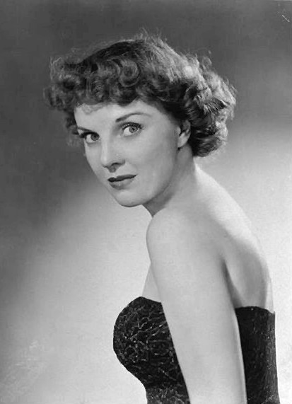 Photo of actress Elspeth Eric. Note this is a better quality copy of the magazine photo. A search for renewal was done in periodicals for the years 1970 and 1971. Macfadden renewed only one issue-the January 1944 issue of Radio Mirror. There's no evidence of renewal for this November 1943 issue.